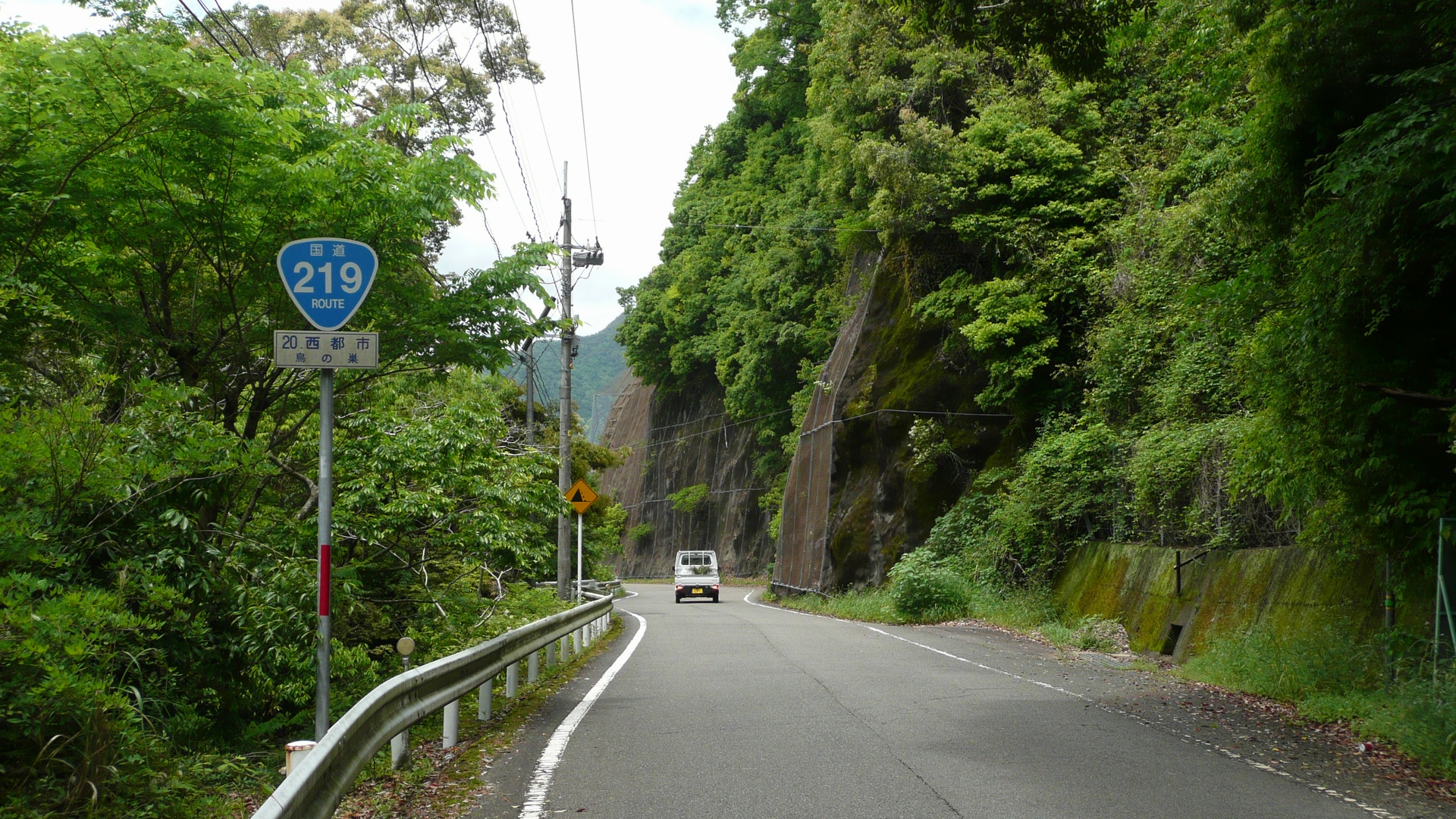 National Route219 (Japan) - Torinosu, Saito City